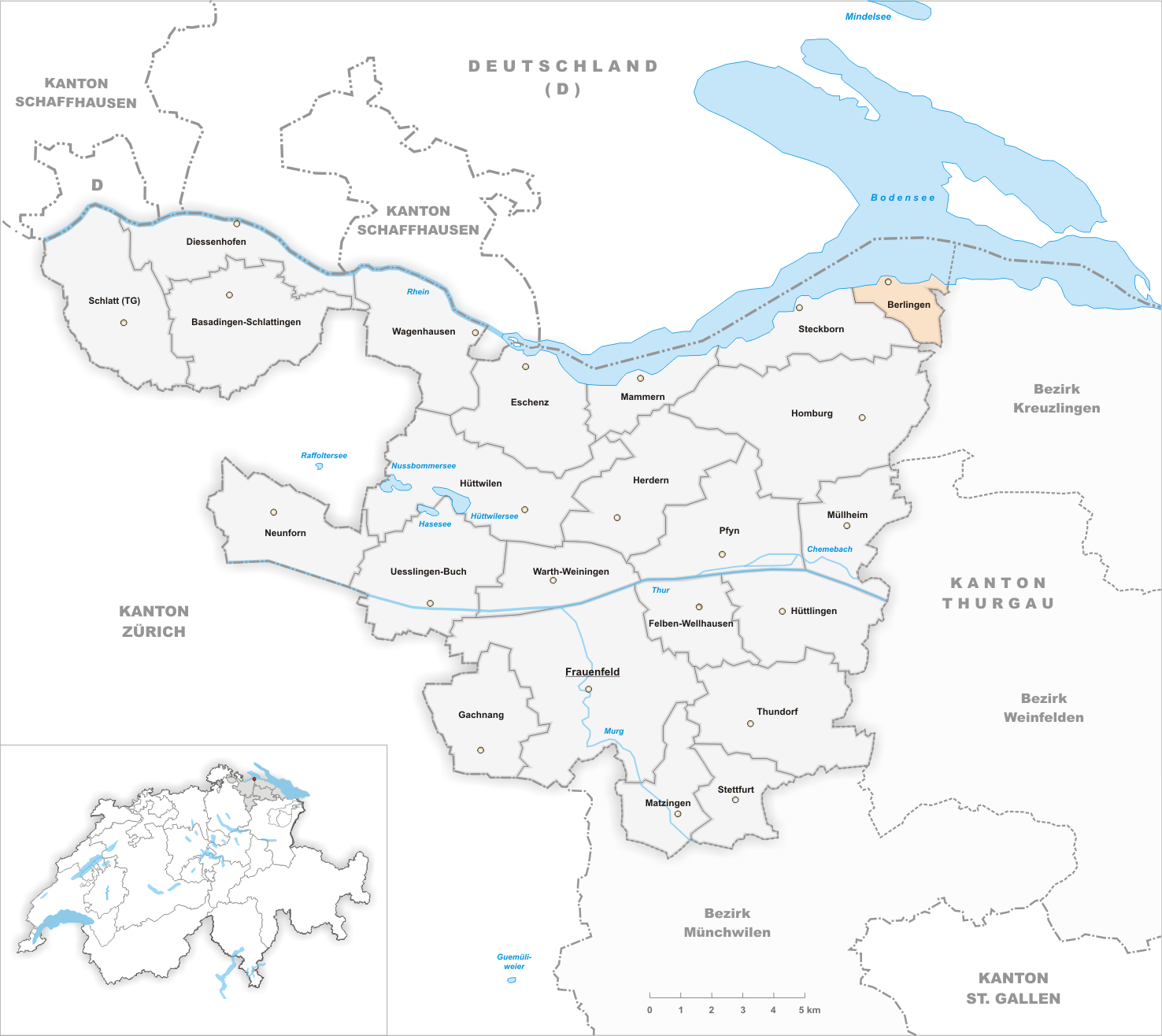 Municipality Berlingen